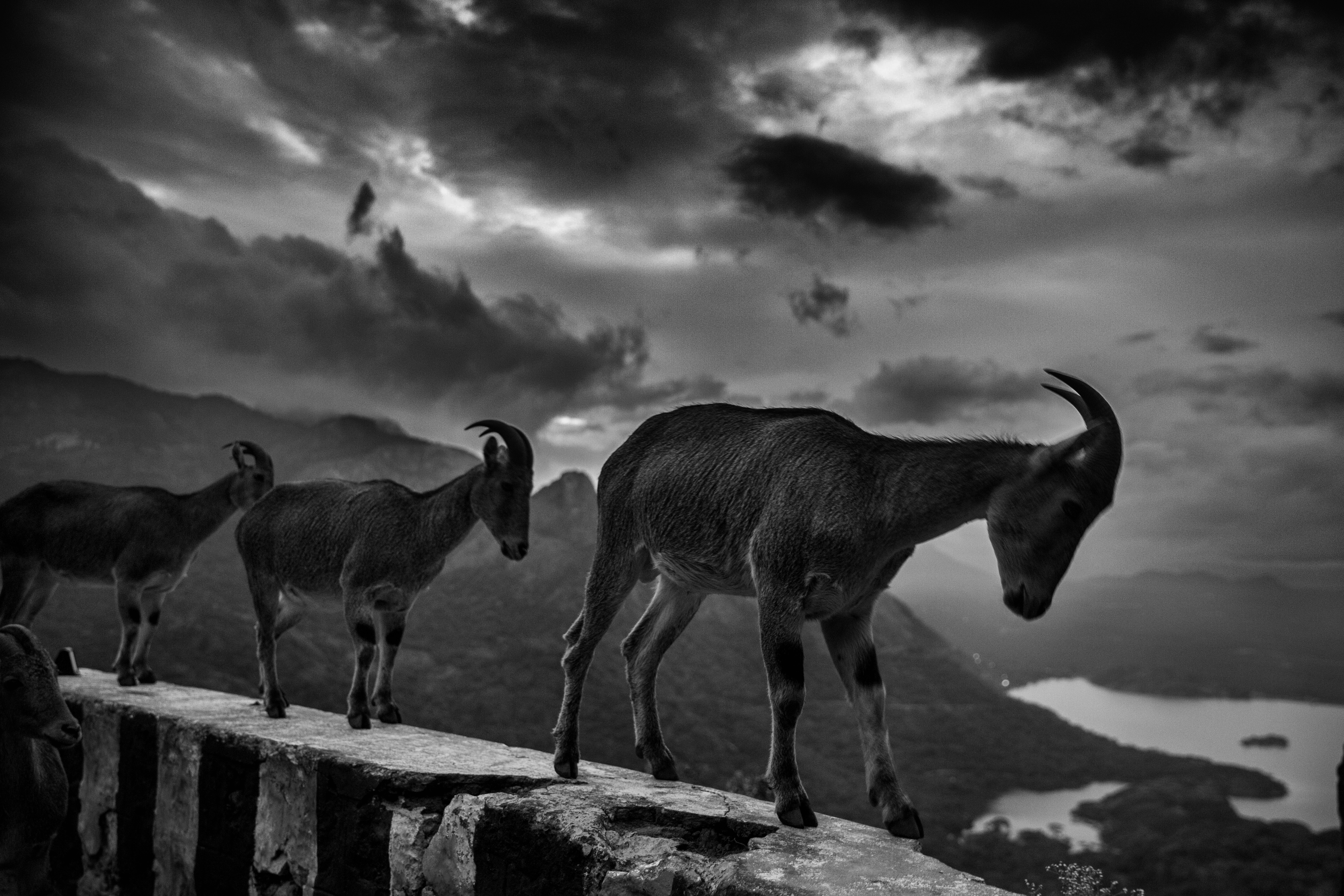 The Nilgiri Tahrs of the Aliyar Region making the evening descent to their night shelters